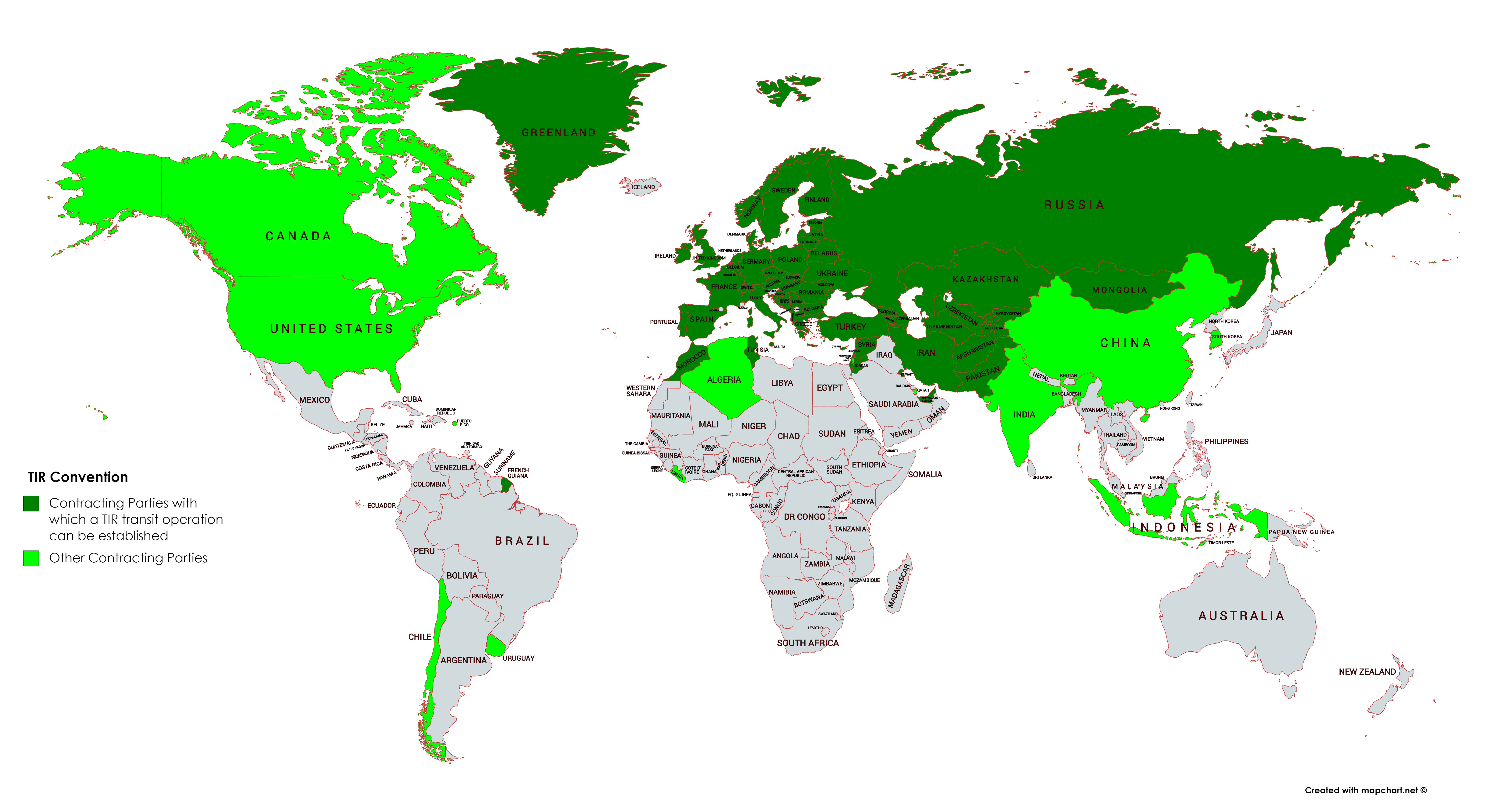 Update Accession of Qatar to the TIR Convention, 1975